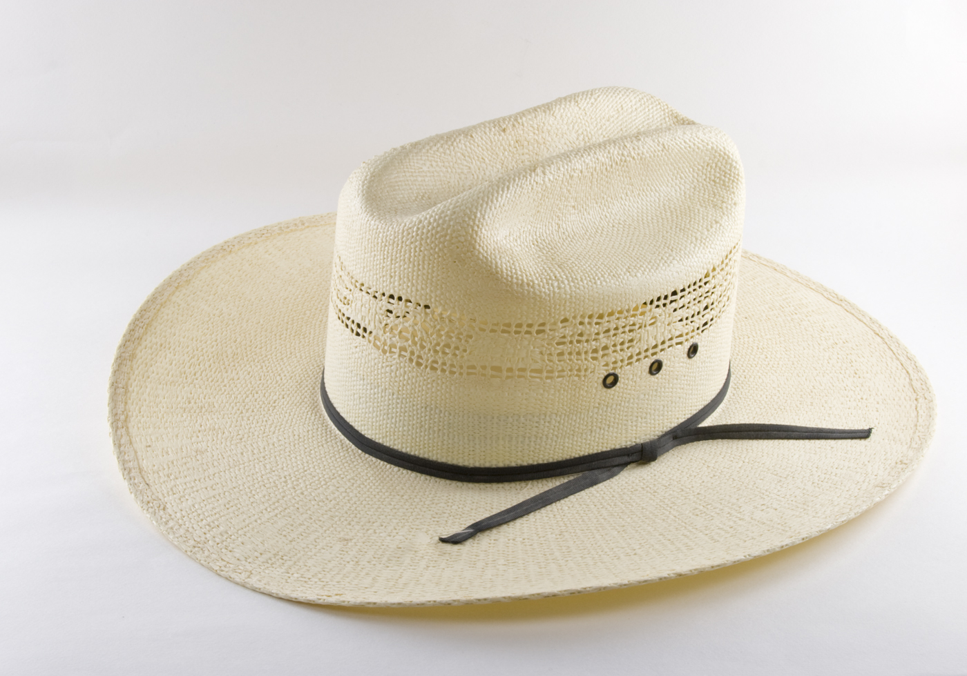 Western straw cowboy hat